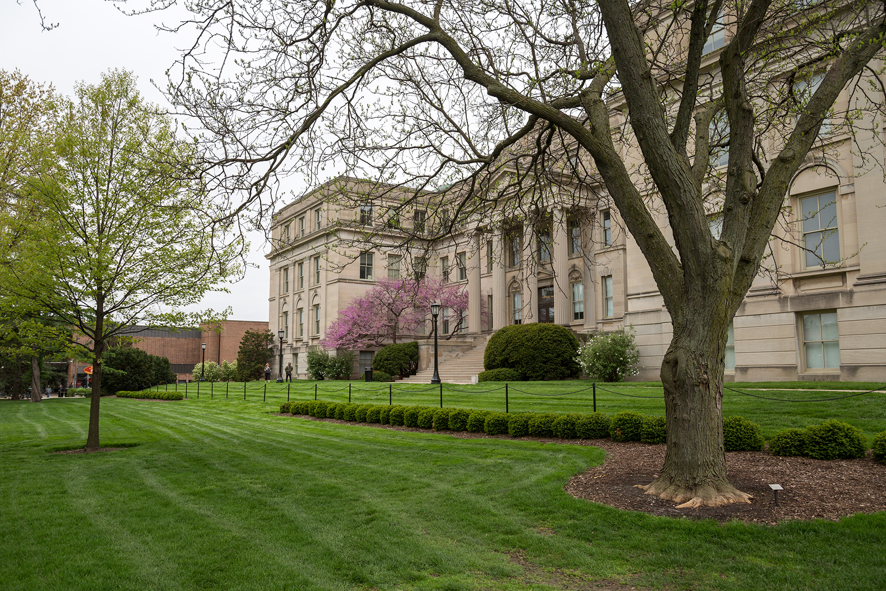 Pentacrest, Bounded by Clinton, Madison, Jefferson, and Washington Sts. Iowa City